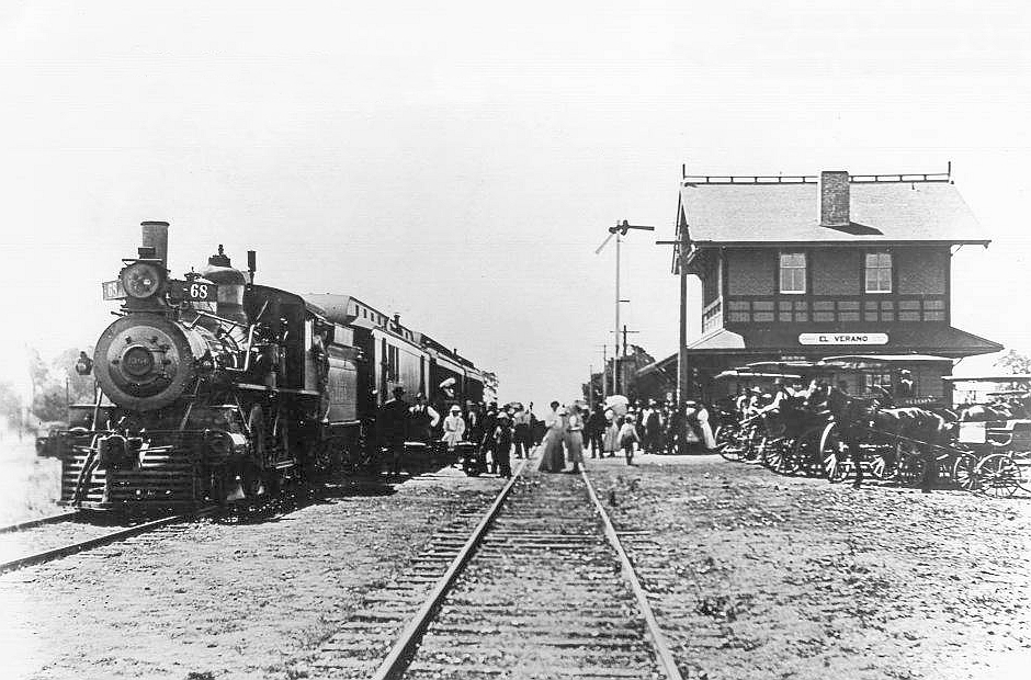 Arrival of train in El Verano, California.